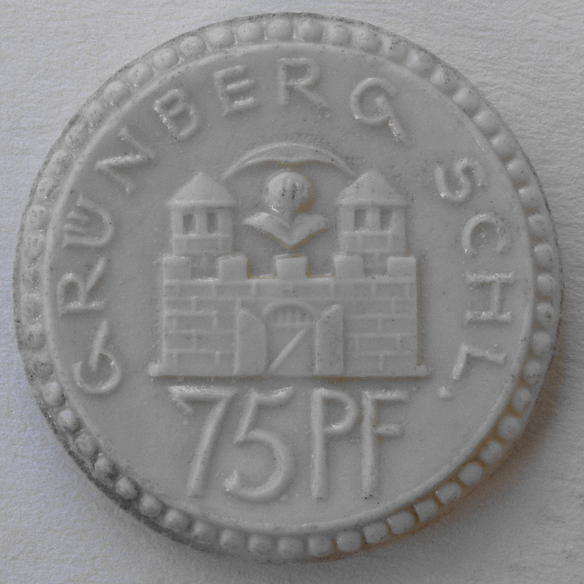 German local "emergency money", Grünberg (Silesia), Zielona Góra, 1922